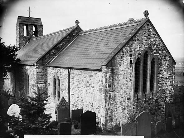 1 negative : glass, dry plate, b&w ; 16.5 x 21.5 cm.